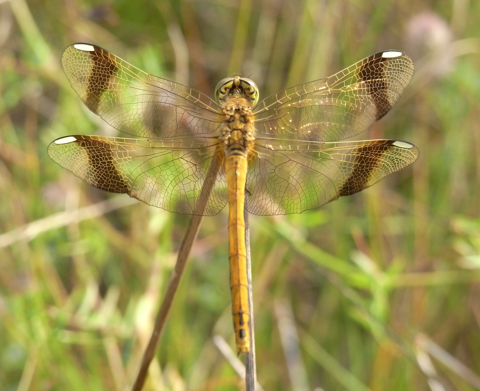 Female Banded Darter (Sympetrum pedemontanum) near Hamburg, Germany.